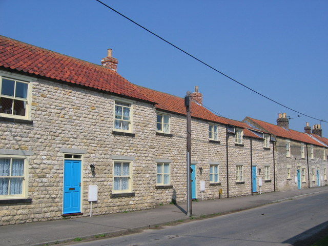 Broughton, Ryedale